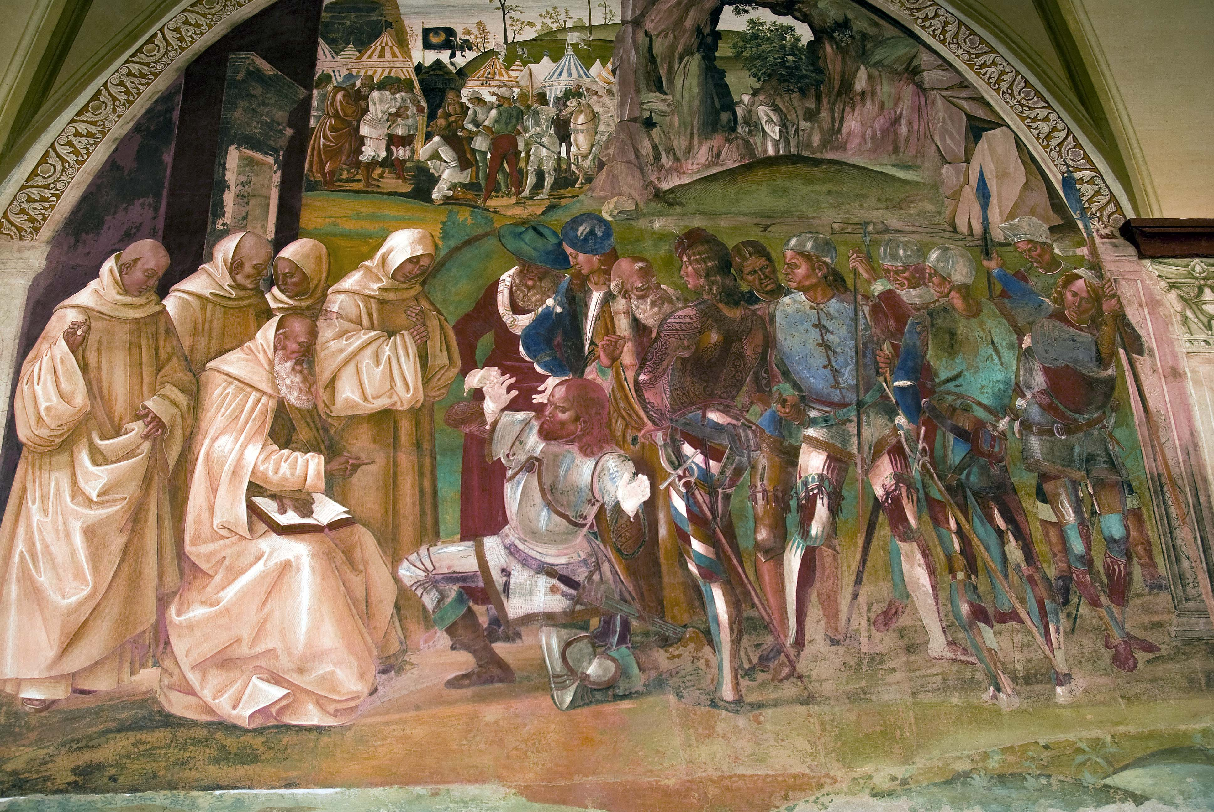 see title